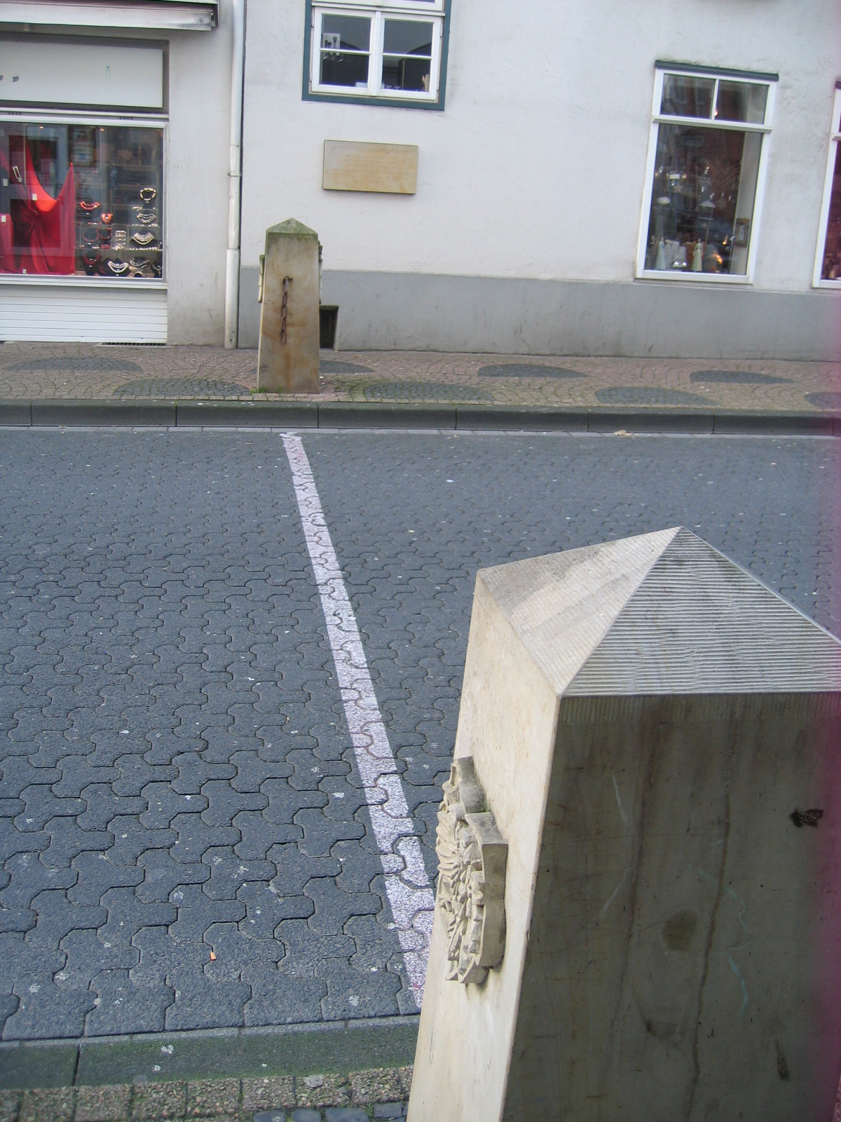 Boundary stones at former boundary between free city of Herford and clerical territory of the cloister in Herford, District of Herford, North Rhine-Westphalia, Germany.